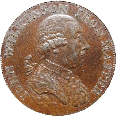 Obverse of 1793 token struck by Soho Mint depicting John Wilkinson